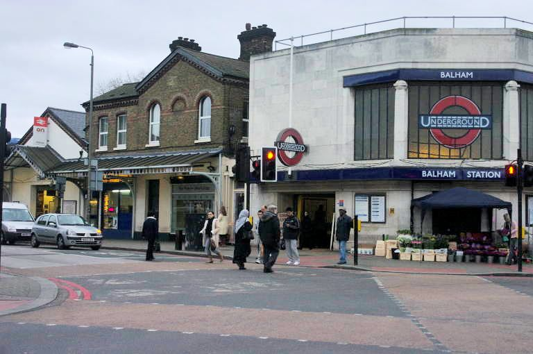 Balham tube and rail station, south London